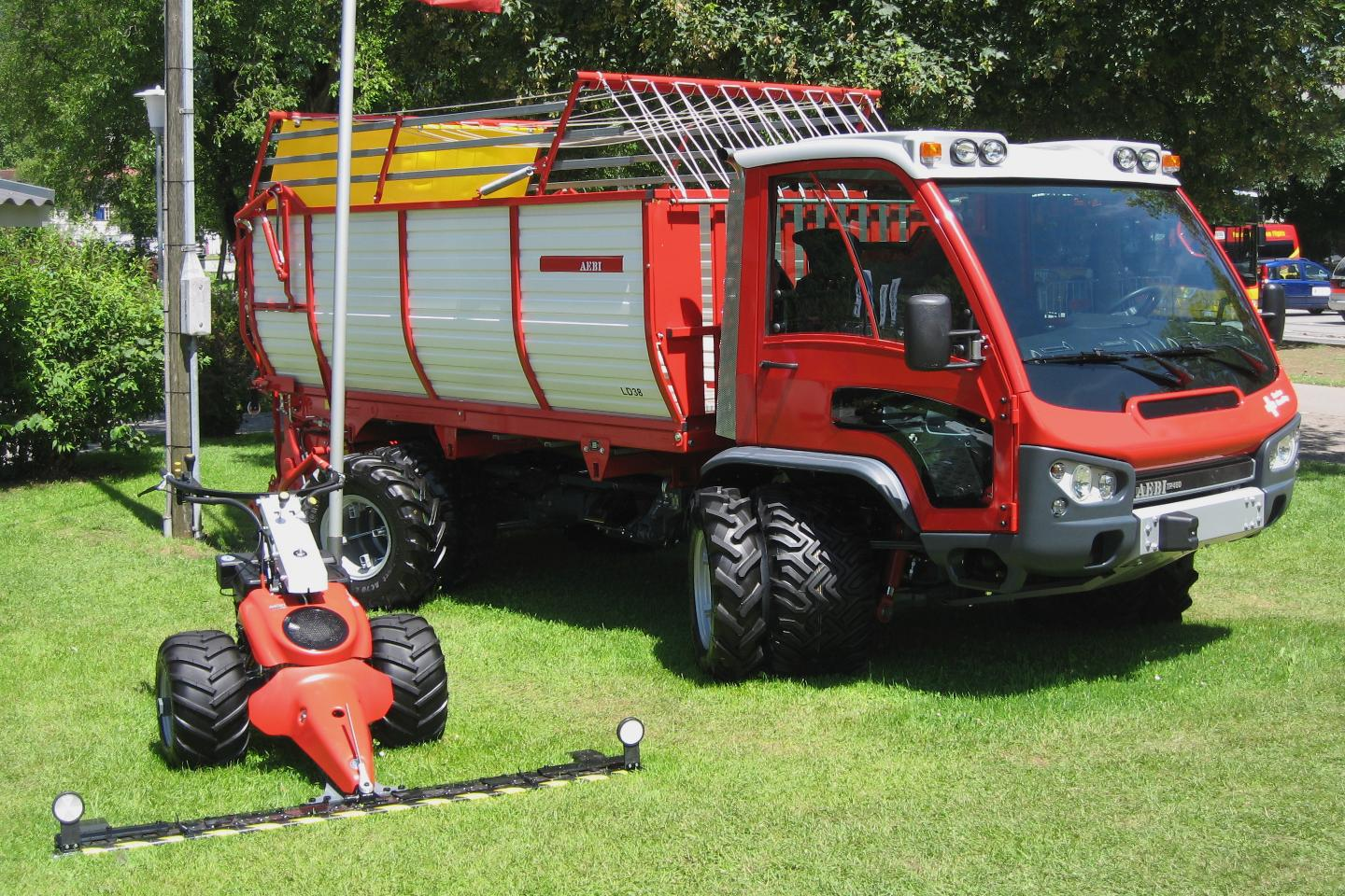 AEBI mower/single-axle tractor CC36 and multipurpose transporter TP460 fitted with LD 38 self-loading body (pick-up at the rear side) in Interlaken.